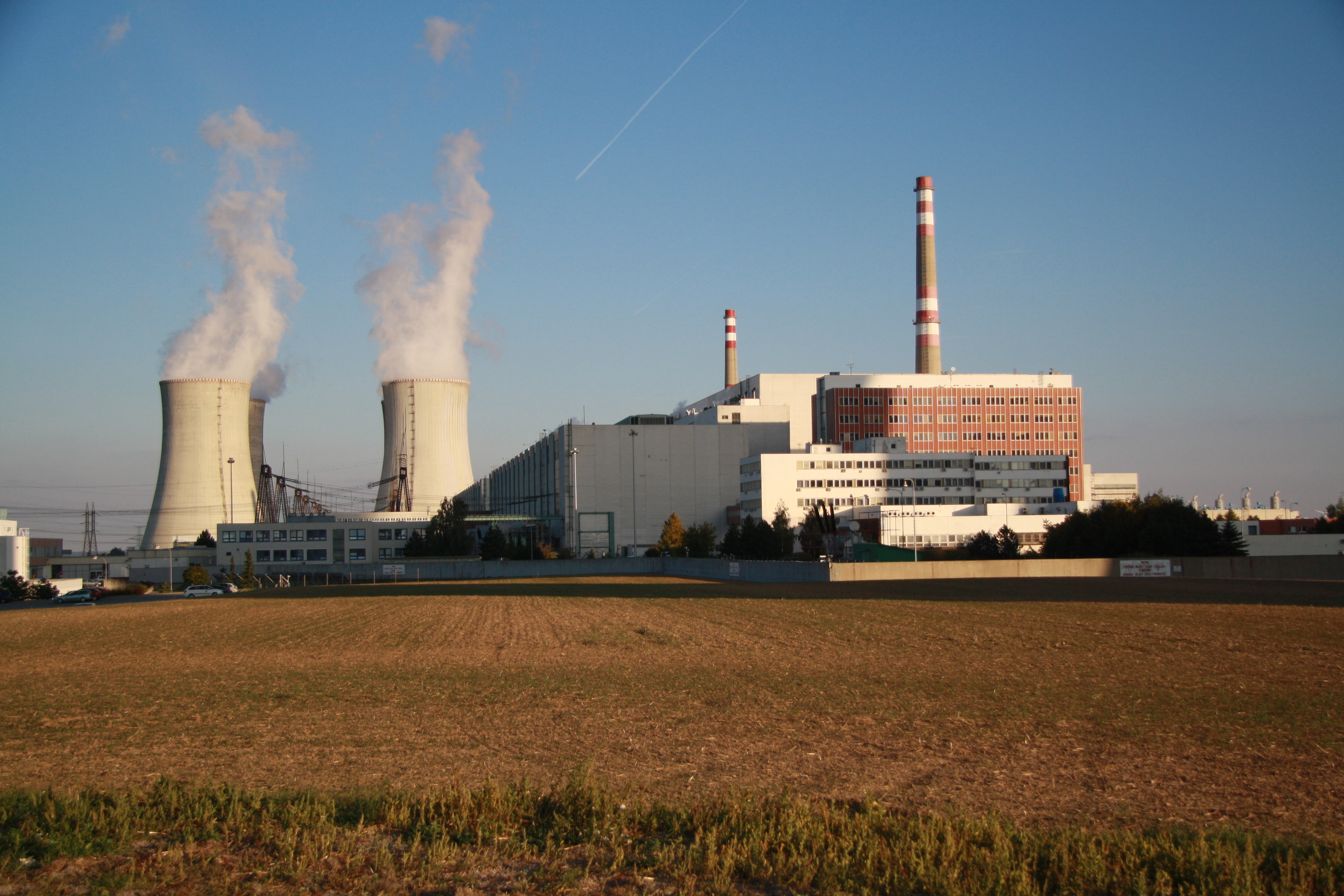 Overview of Dukovany Nuclear Power Plant in Dukovany, Třebíč District.